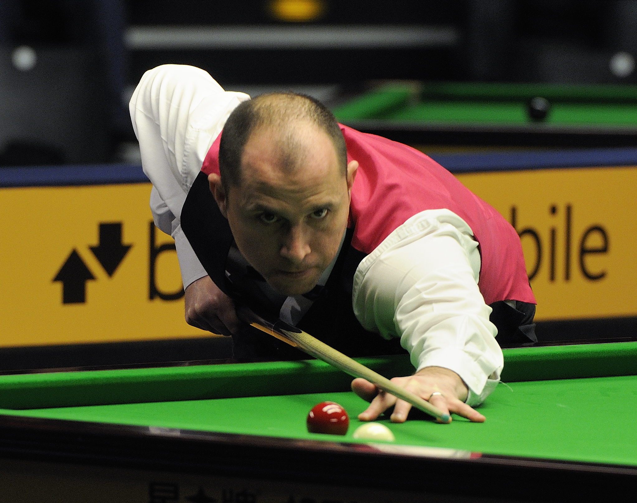 Picture taken in Berlin during the Snooker German Masters in 2013. Joe Perry.